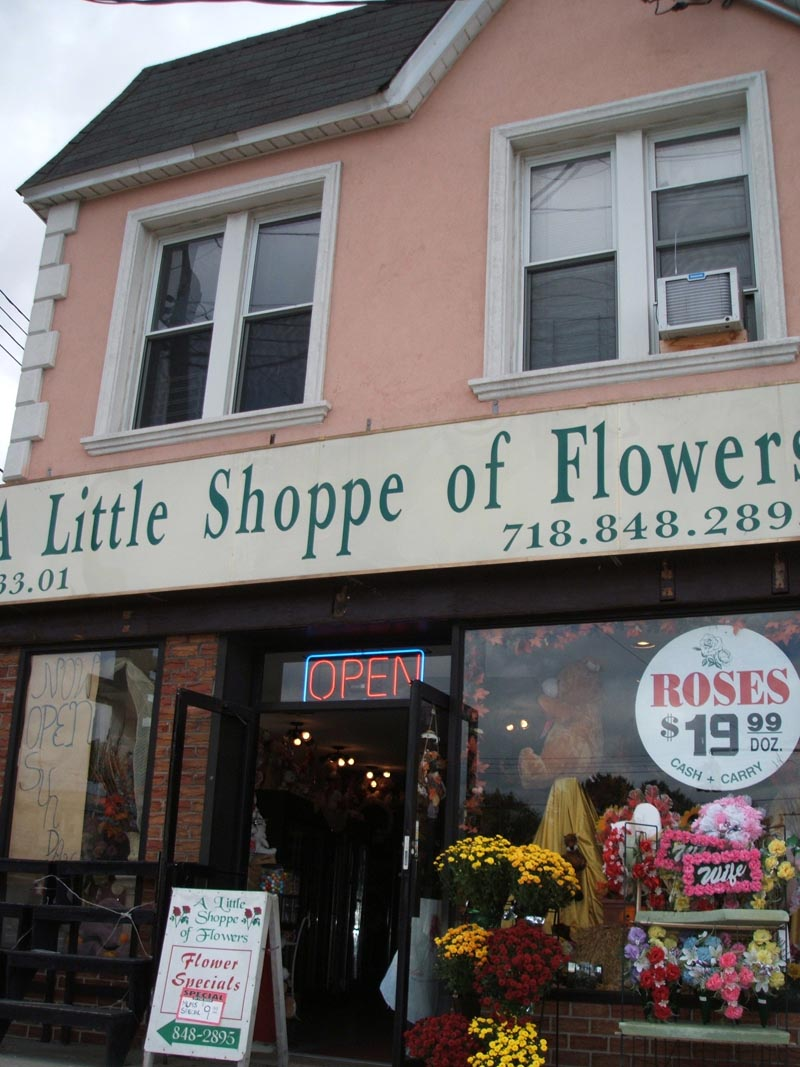 The apartment above a corner drug store in Ozone Park, New York City where Jack Kerouac lived with his parents briefly while writing some of his earliest work. The drug store was a flower shop when this photo was taken.